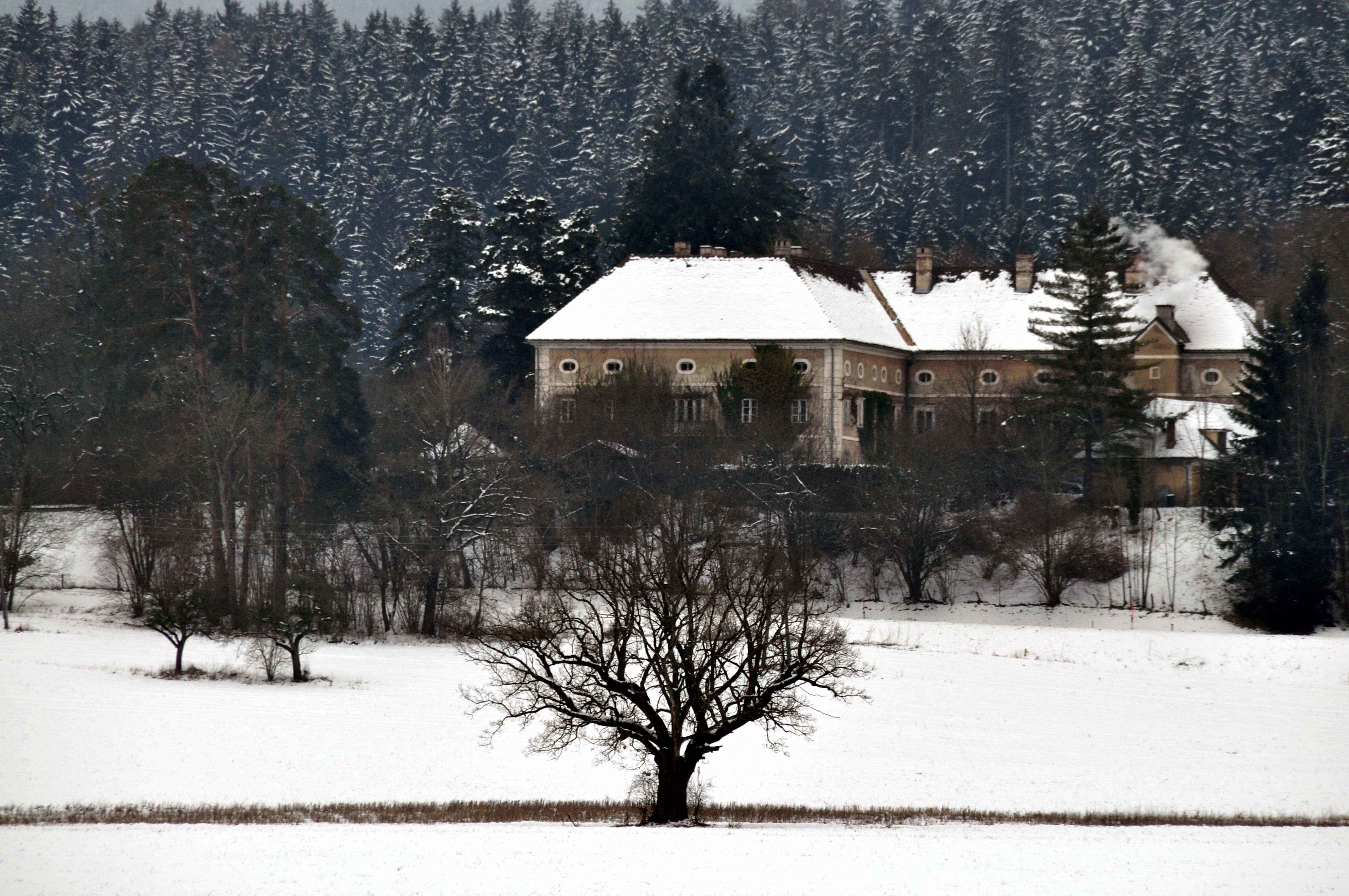 Castle Niederosterwitz (owner: Khevenhueller family), municipality Sankt Georgen am Längsee, district St. Veit an der Glan, Carinthia / Austria / EU